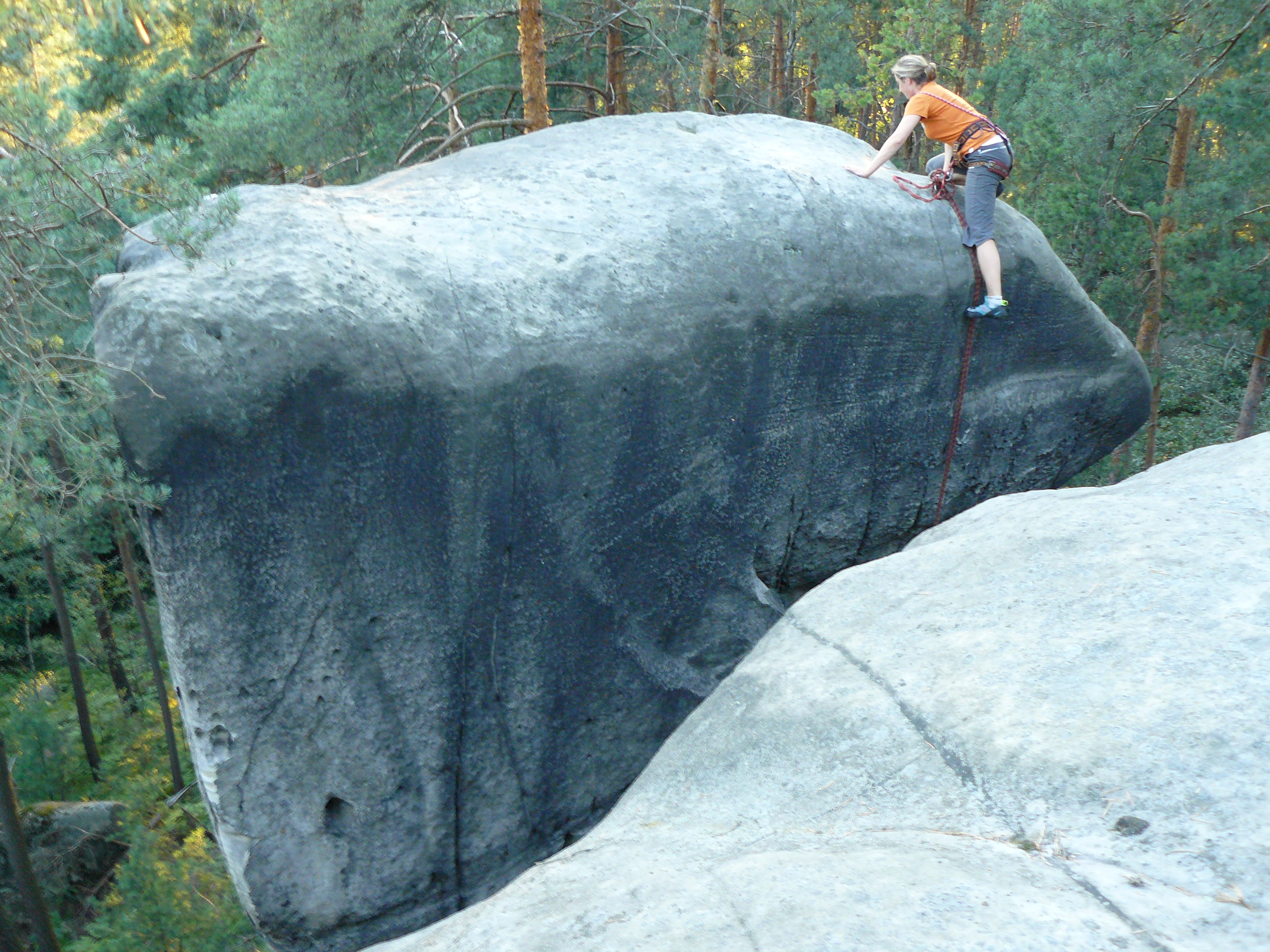 rappeling (Slon, Drábovna) Česky: slaňování (Slon, Drábovna)